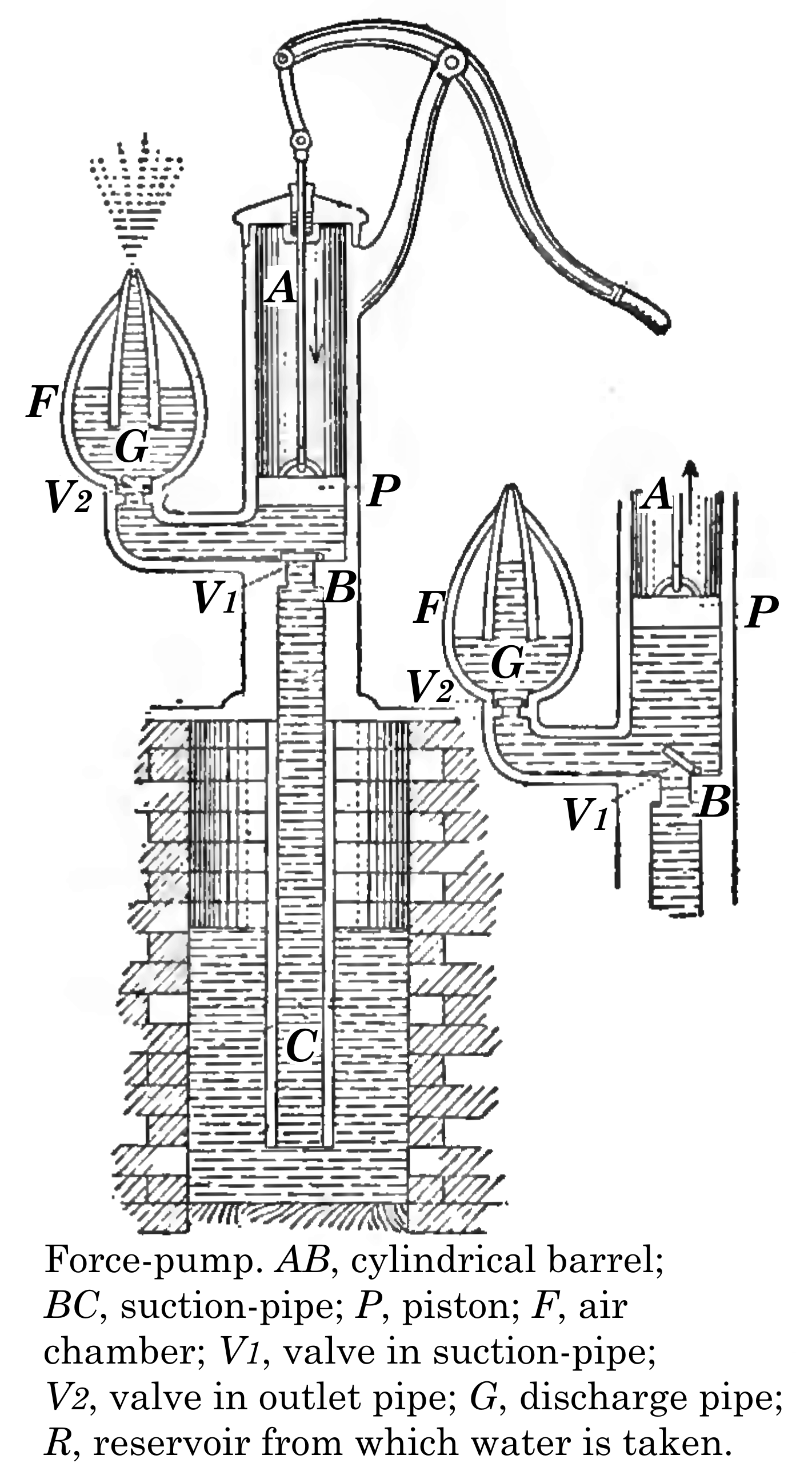 Diagram of a hand-operated force-pump, a device for pumping water at high pressures. Sourced from Fig.158 of Merchant, F.W., and Chant, C.A., The Ontario High School Physics. Toronto: Copp Clark Co. Ltd., 1911.